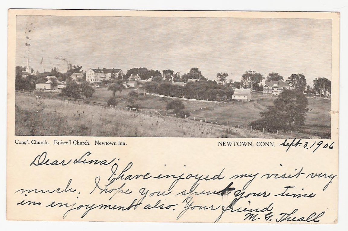 Postcard: Bird's Eye view of Newtown, Connecticut, sent 1906 Description: Postcard caption identifies Congregational Church, Episcopal Church and Newtown Inn, date handwritten on front of postcard, with message, is September 1, 1906. According to Web page: "posted 1906, panorama of Newtown Ct."